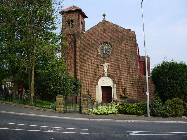 Roman Catholic church of the Sacred Heart, Preston New Road, Blackburn, Lancashire